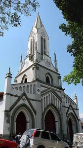 Iglesia de San ALEJO bocono